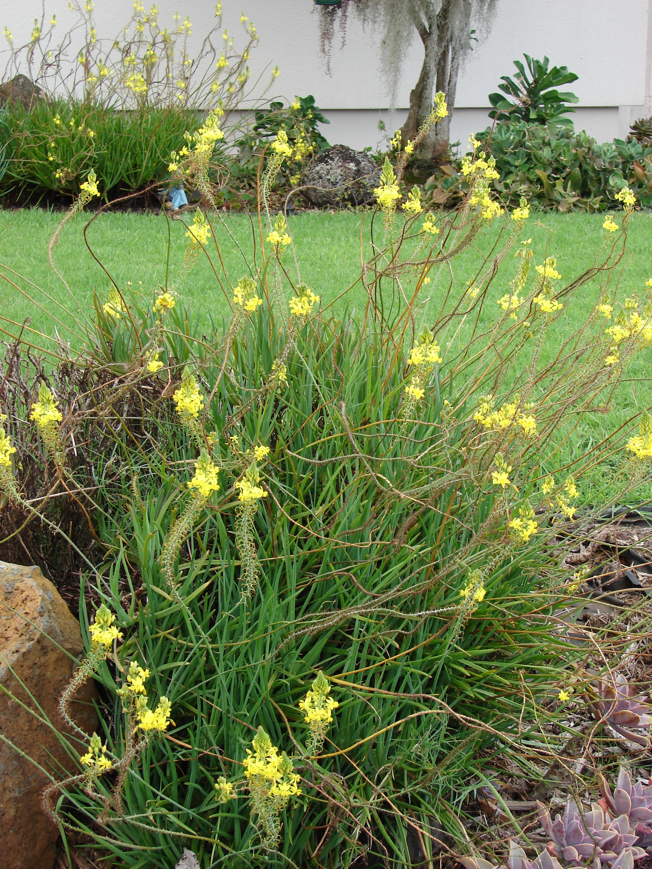 Bulbine frutescens (Stalked bulbine) Flowering habit at Pukalani, Maui, Hawaii. April 17, 2009 #090417-6183 Image Use Policy